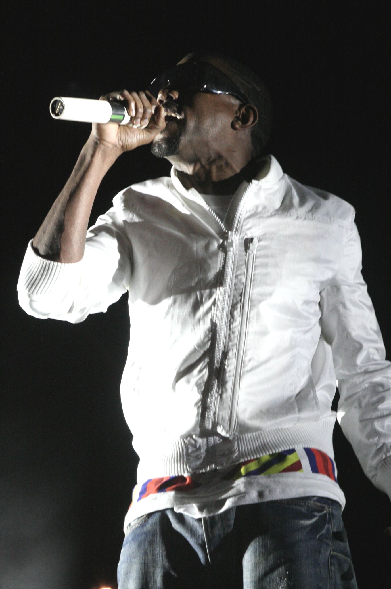 Kanye West performing at Bluesfest on July 14, 2007 in Ottawa, Canada.